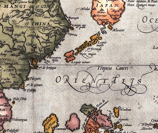 Independent from China